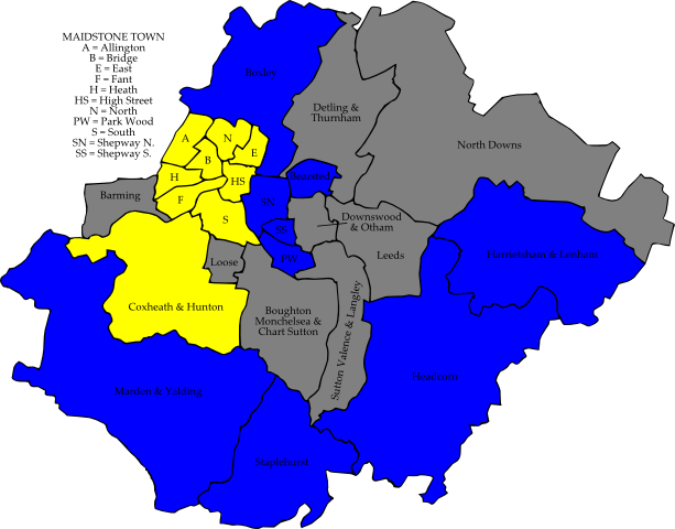 A map of the results of the 2010 Maidstone Council election. Colour legend by wards won: Conservative party Liberal Democrats Wards in grey were not contested in 2010.